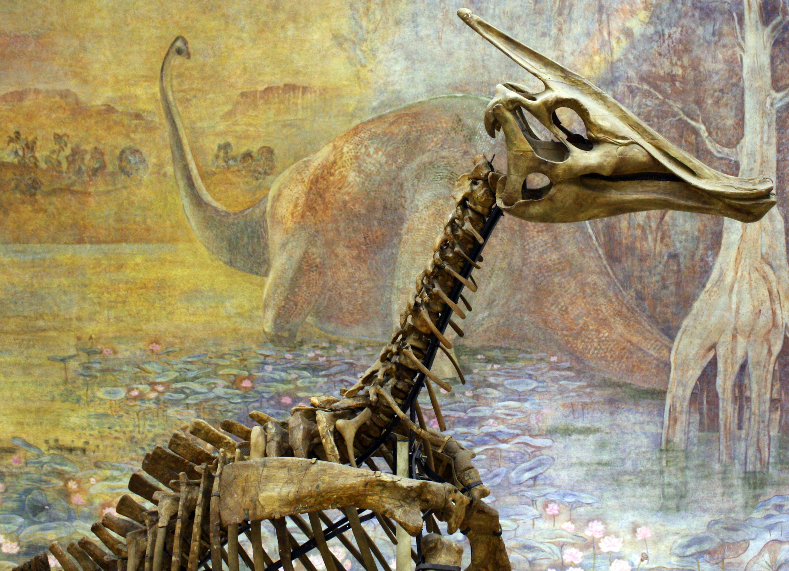 Mounted Saurolophus angustirostris, Palaeontological Institute, Moscow